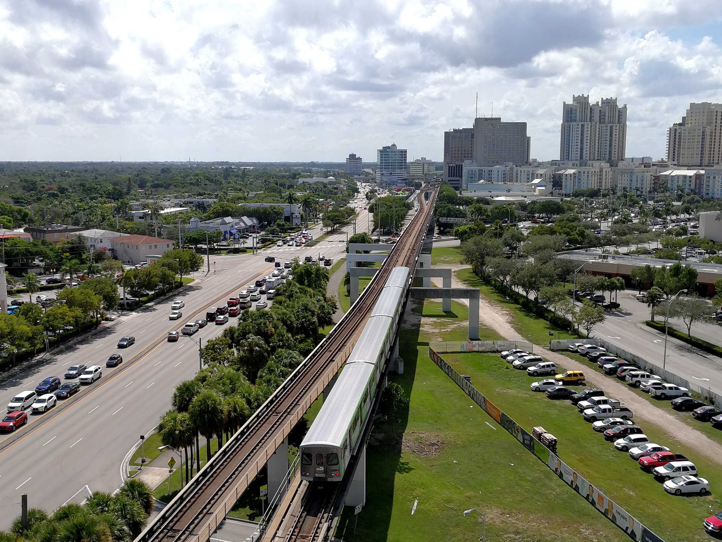 A Miami Metrorail train ran between Dadeland North and Dadeland South Station